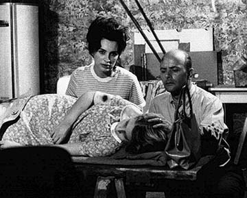 The Cooper family from the film Night of the Living Dead (1968).